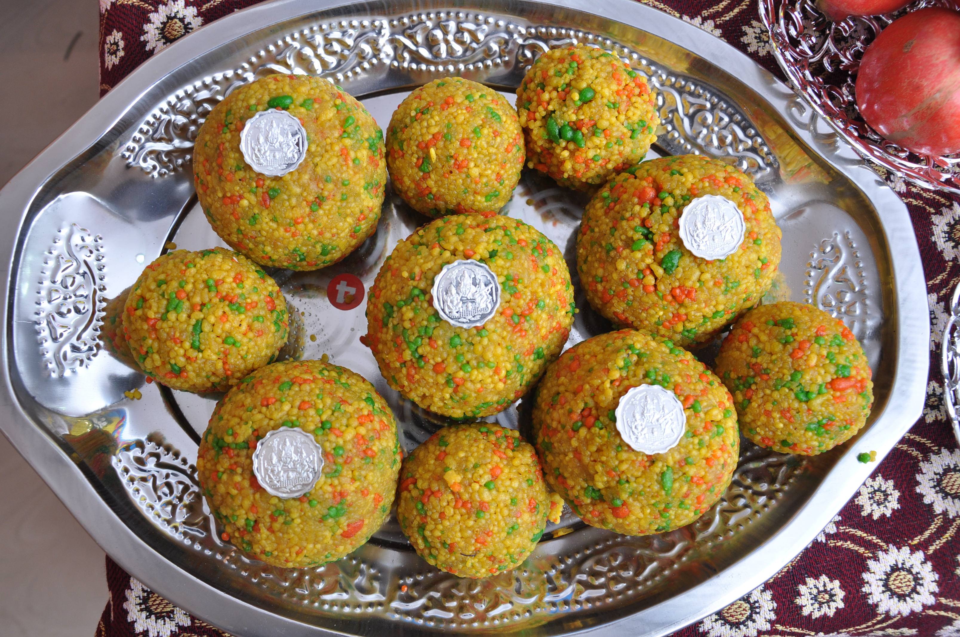 Indian sweet.